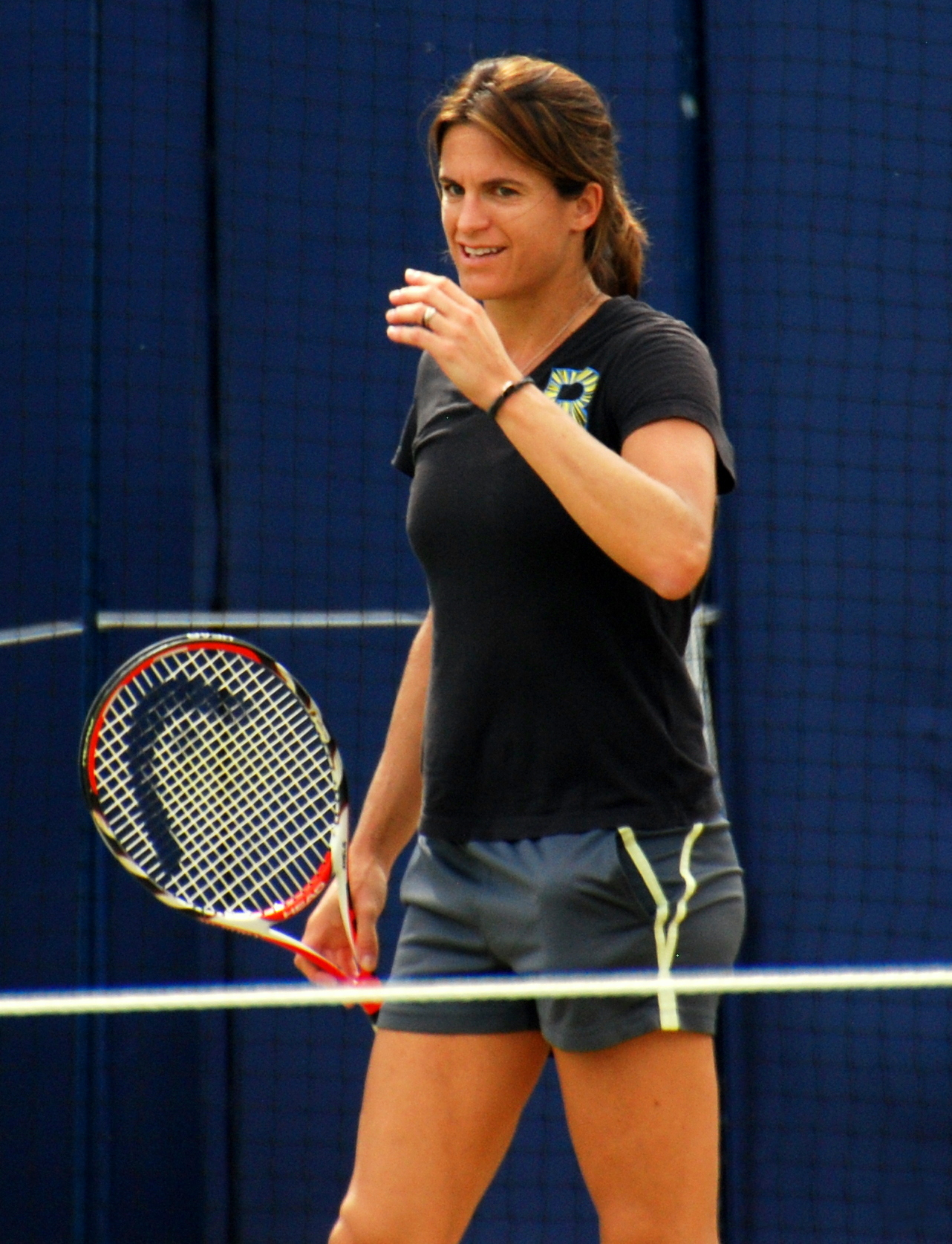 Amelie Mauresmo at the Aegon Championships 2014